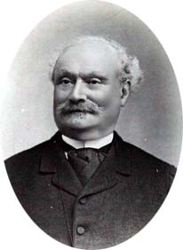 Igino Cocchi (1827-1913)